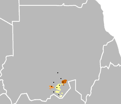 Kordofanian languages: Heiban (dark yellow) Talodi (clear yellow) Katla (orange) Rashad (Red)